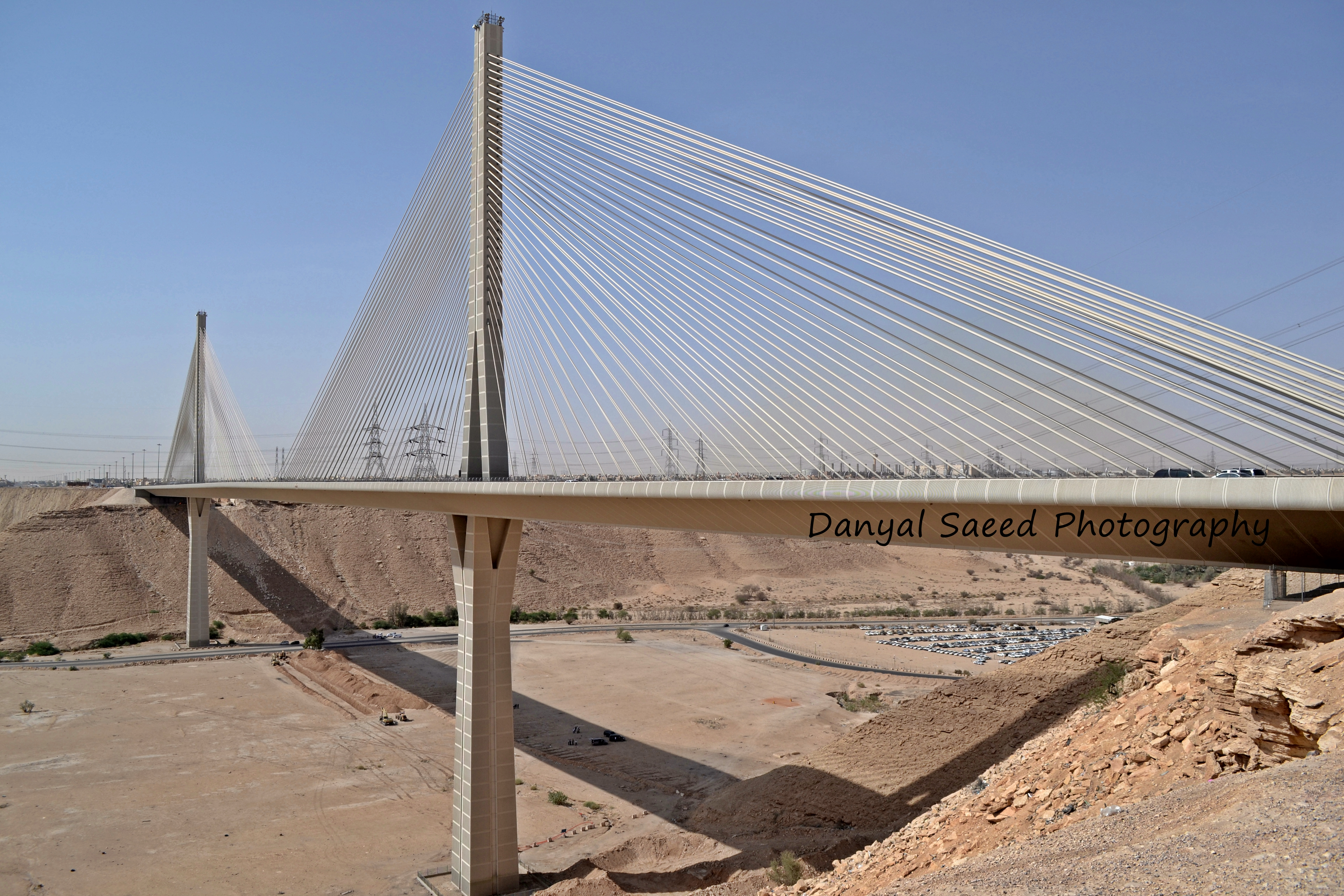 The Wadi Laban Bridge — a modernist cable-stayed bridge over a Saudi wadi. Built in 1997 — near Riyadh, in Saudi Arabia. Credits Danyal Saeed Photography